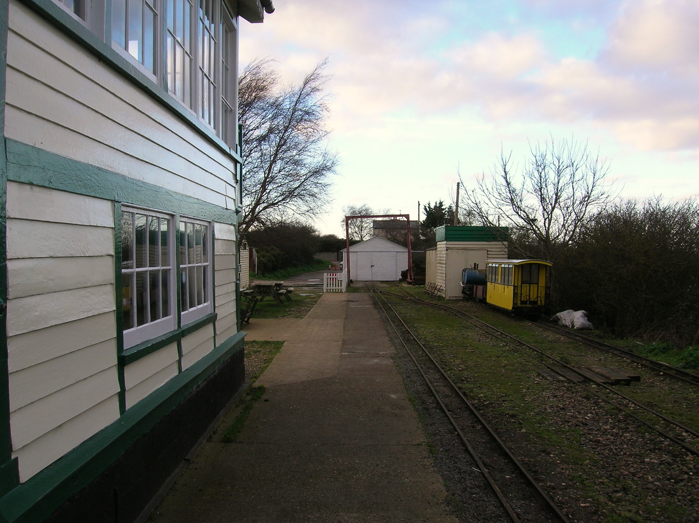 The narrow gauge terminus of the Wells and Walsingham Light Railway.